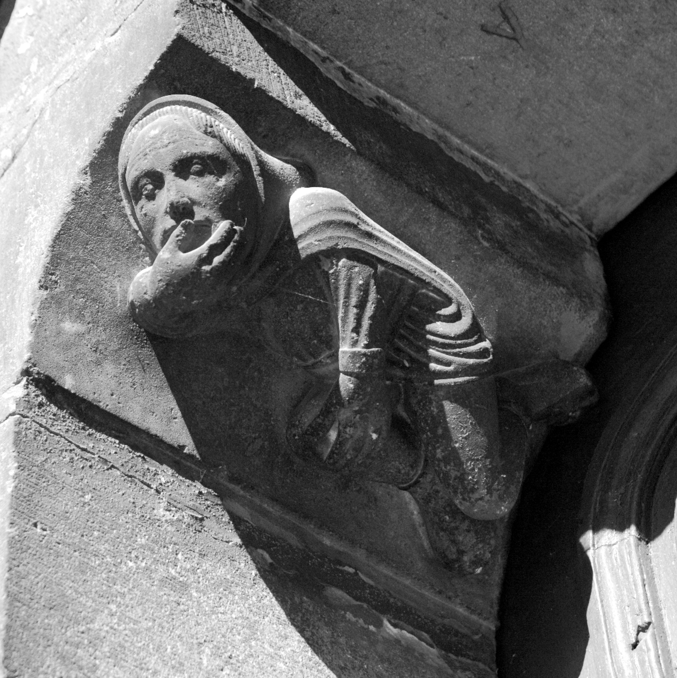 Engraving requesting silence from visitors (?), Cathédrale Notre-Dame de Senlis